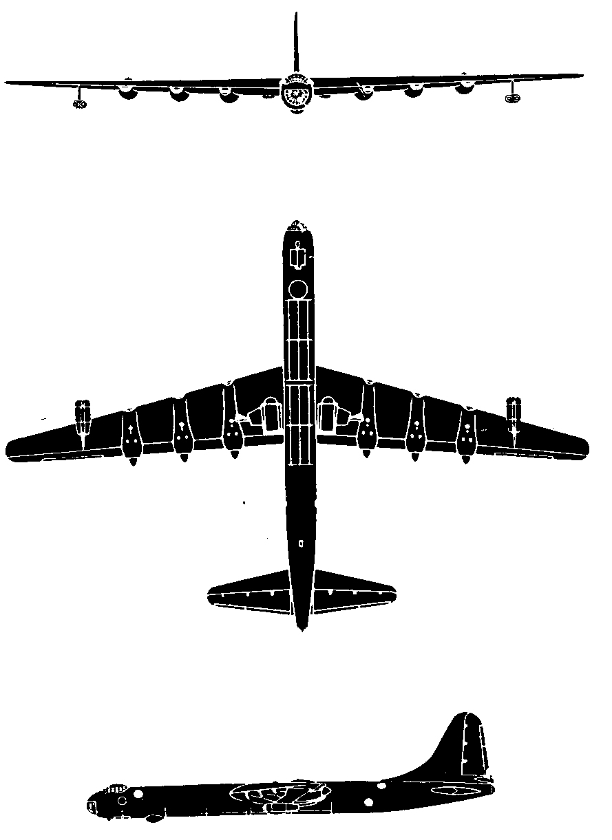 Silhouette of Convair B-36F. The 1952 edition of the Observer's Book of Aircraft used 34 Crown Copyright silhouettes provided by the Controller of H.M. Stationery. An acknowledgements section on page 5 of the book identifies them by page. This image is one of those and since the publication date is pre-1957 is in the public domain.